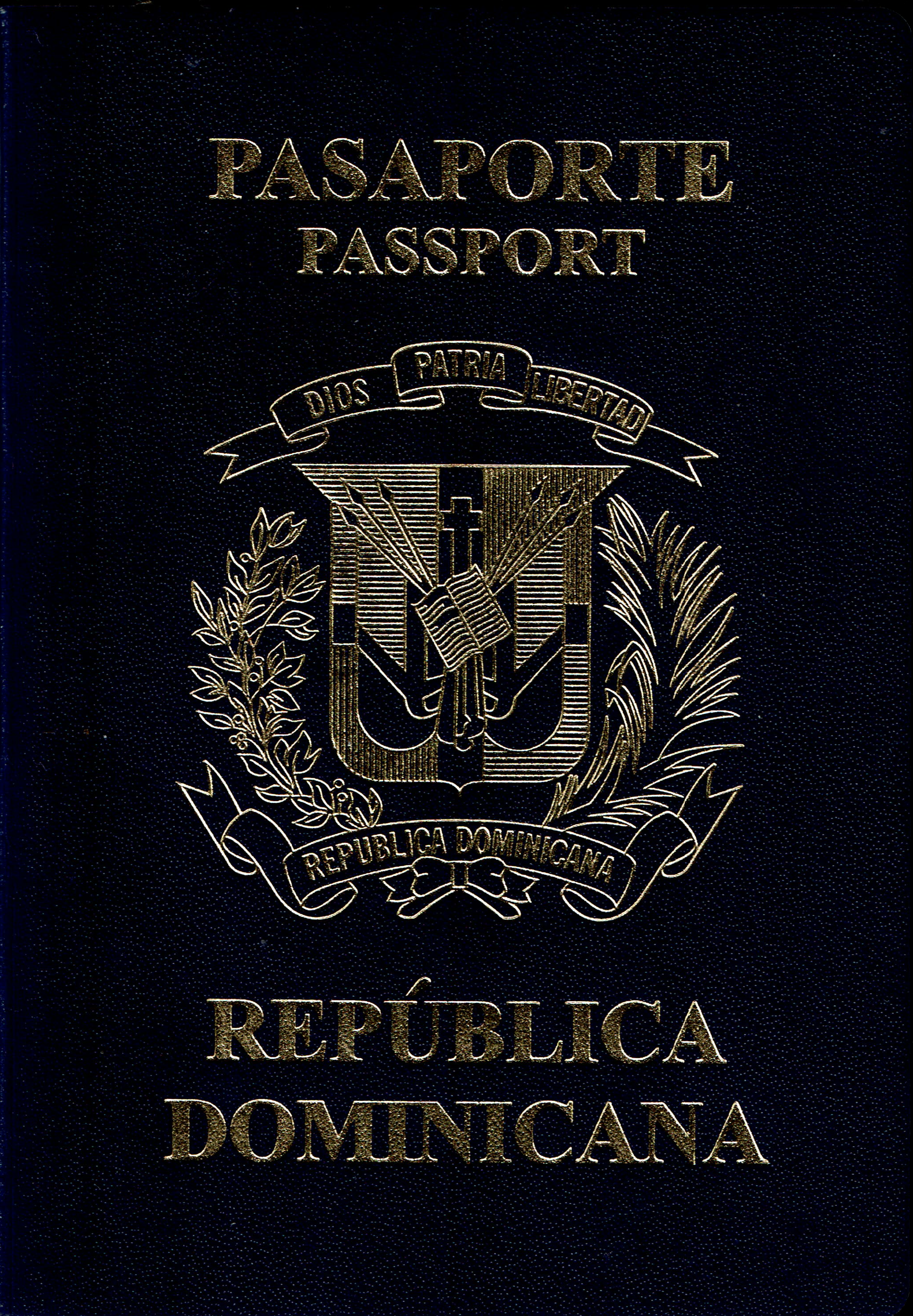 The front cover of a contemporary Dominican passport